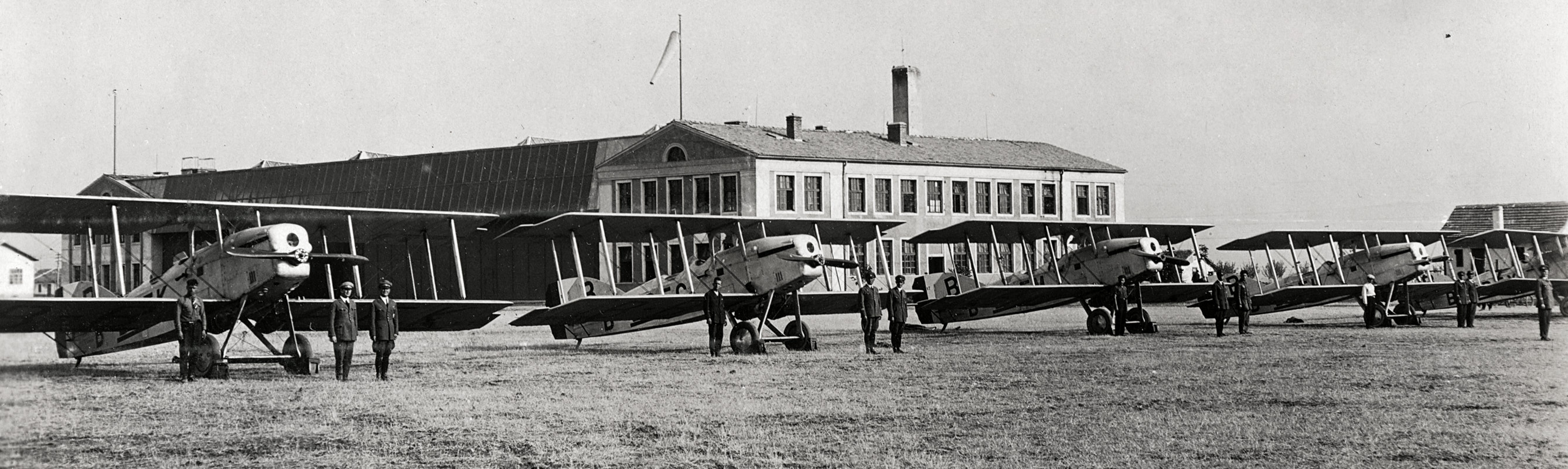 Bulgarian Air Force Potez 17 at Bozhurishte airfield